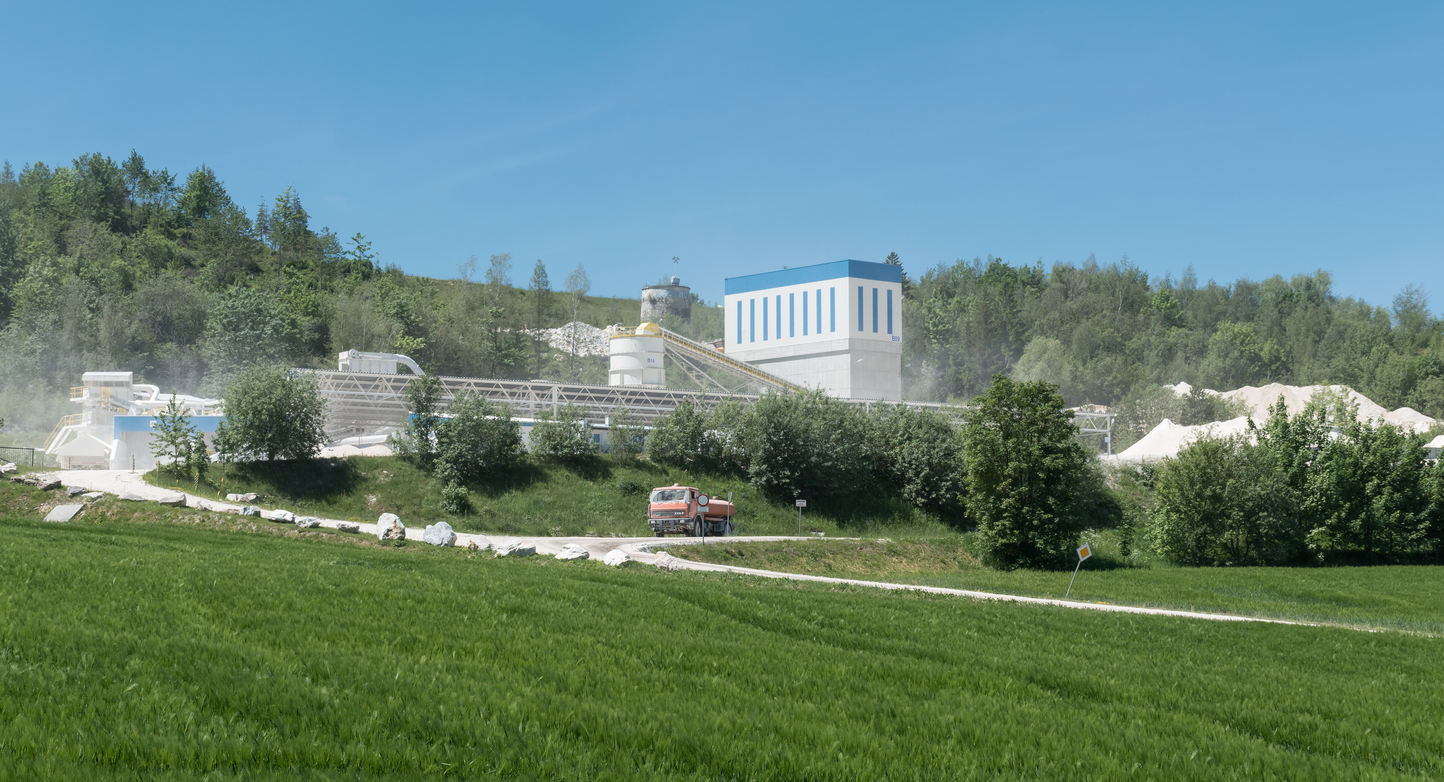 Romanowo mine